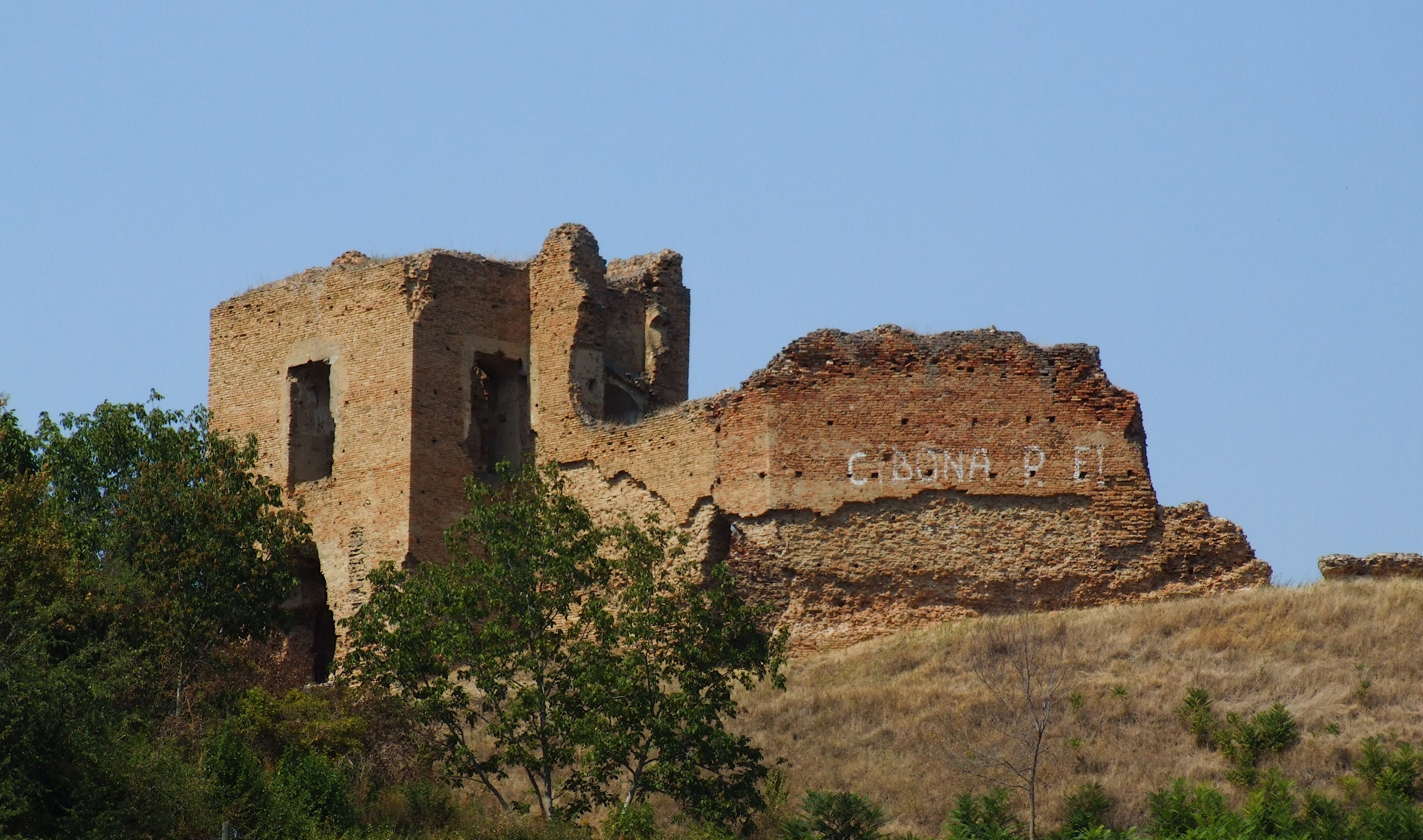 Castle in Šarengrad, Croatia (Castellum Athya)